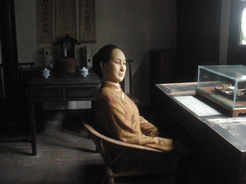 Wax figure of Qiu Jin at her desk in her former residence which is now a museum.